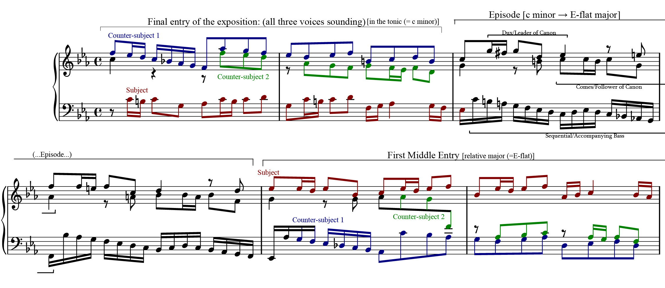 Analysis by Matt.kaner of a portion of Bach's C minor Fugue no. 2 the Well-tempered Clavier Book 1. Typset in lilypond/edited in photoshop.